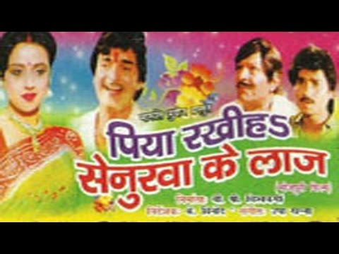 Poster of an bhojpuri movie